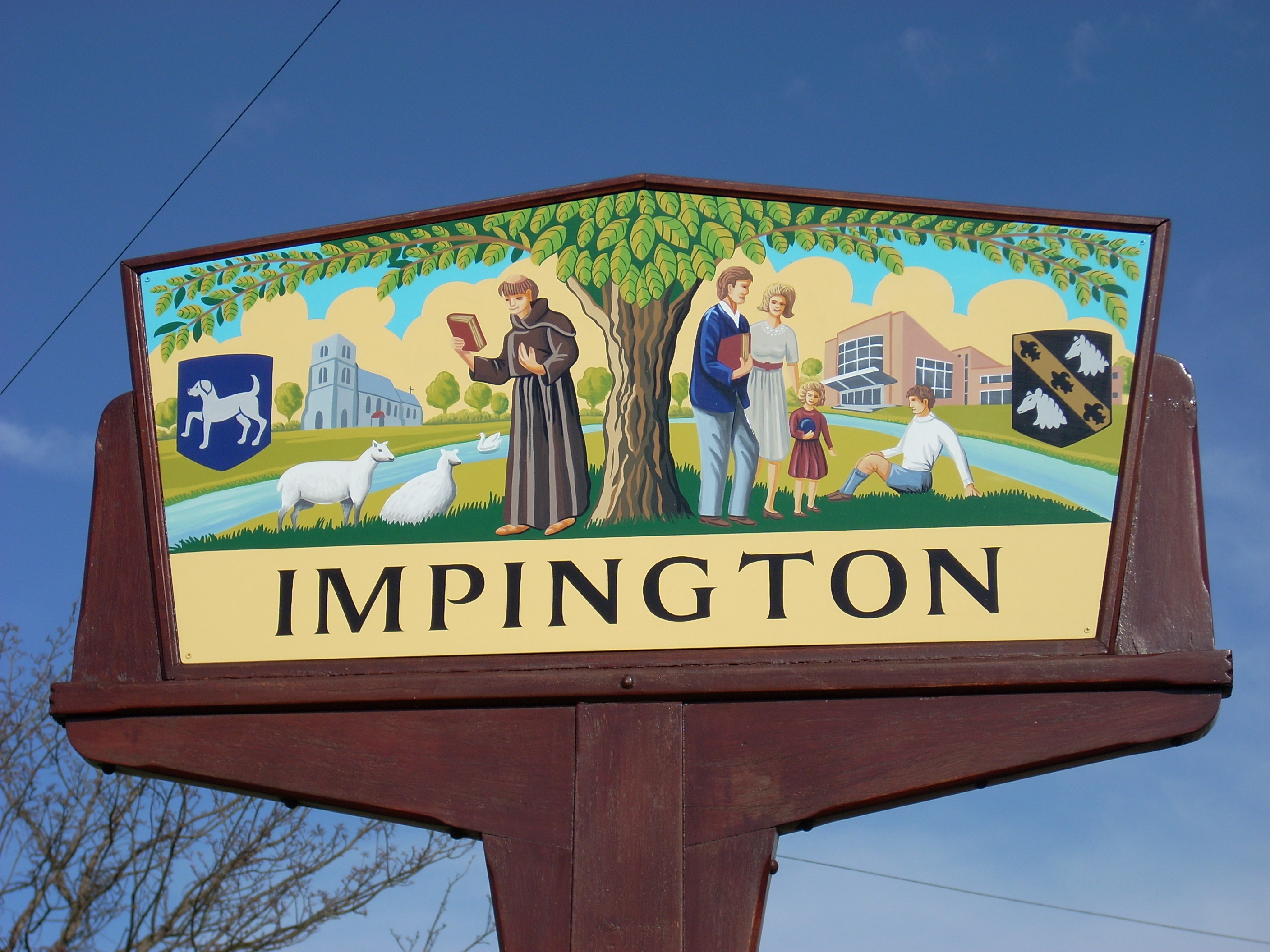 Village sign of Impington, Cambridgeshire, England